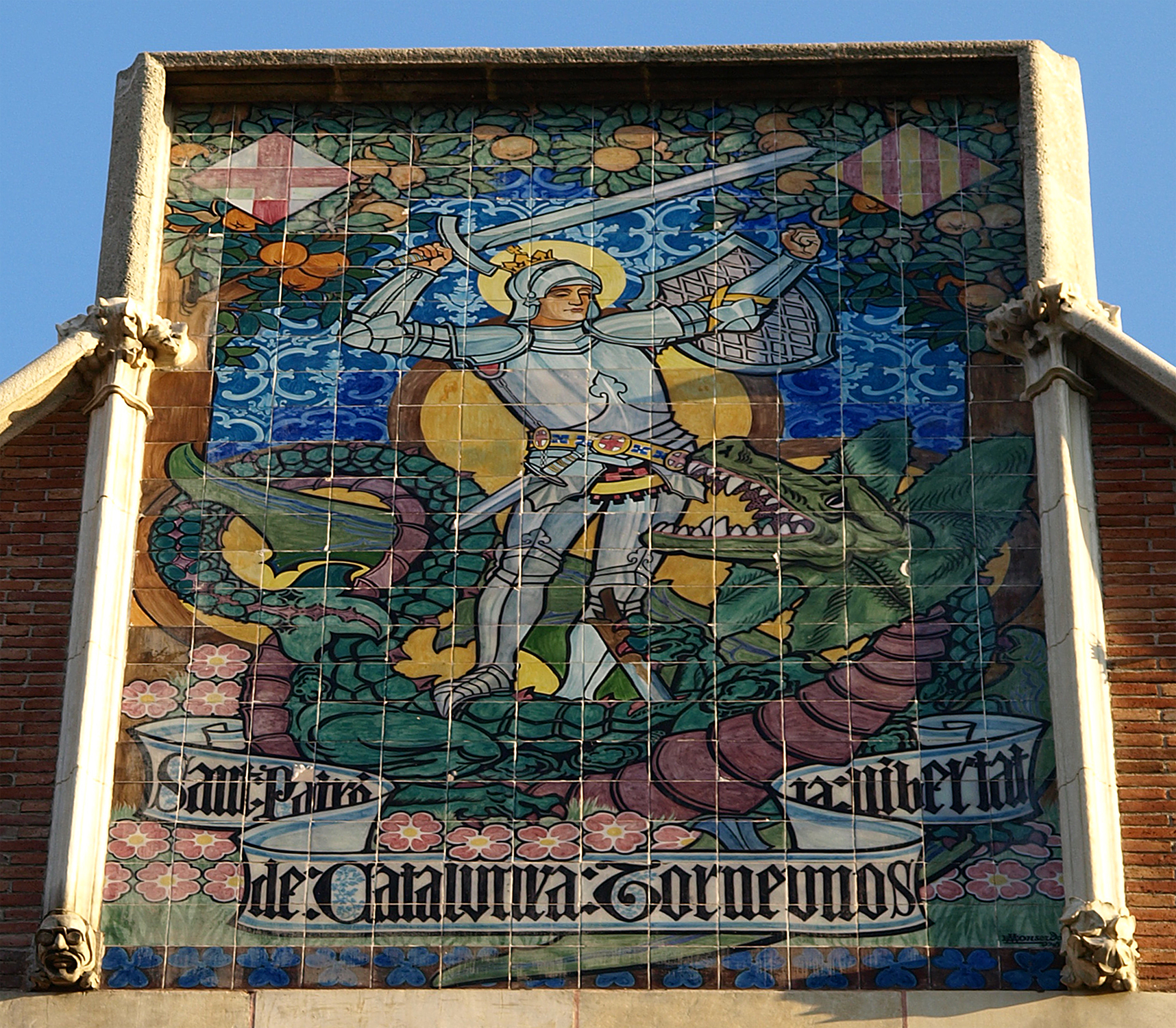 Casa de les Punxes - Catalan Modernisme (Josep Puig i Cadafalch, 1905)